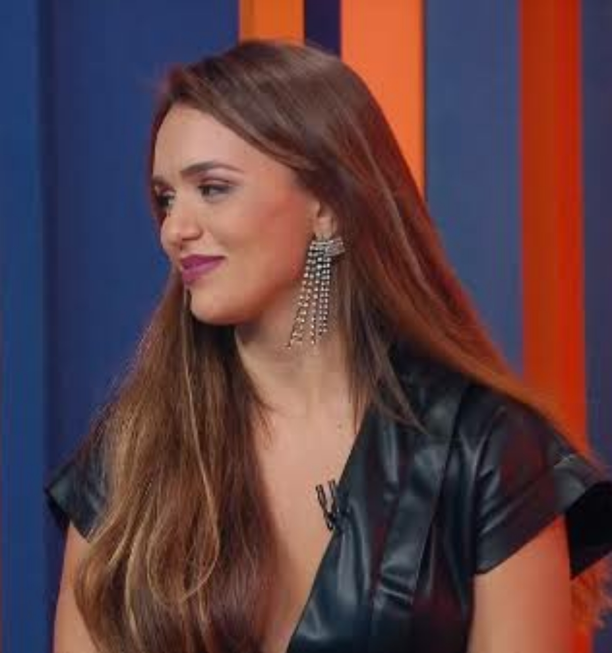 Rafa Kalimann during "A Eliminação" on April 28, 2020